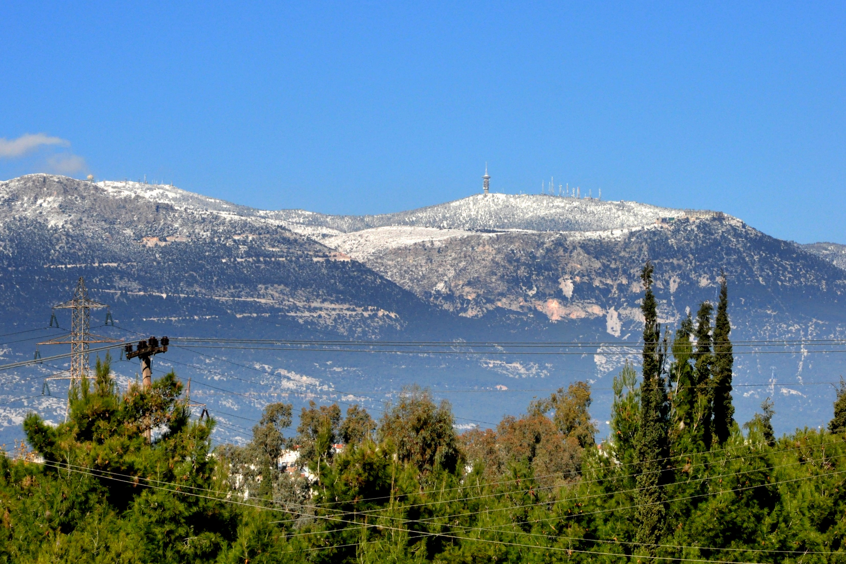 Parnitha with some snow, seen from Nea Filadelfia, Athens, Greece, 3rd of February 2010. Yet the highest peak, the Karambola, 1.413, remains unseen.